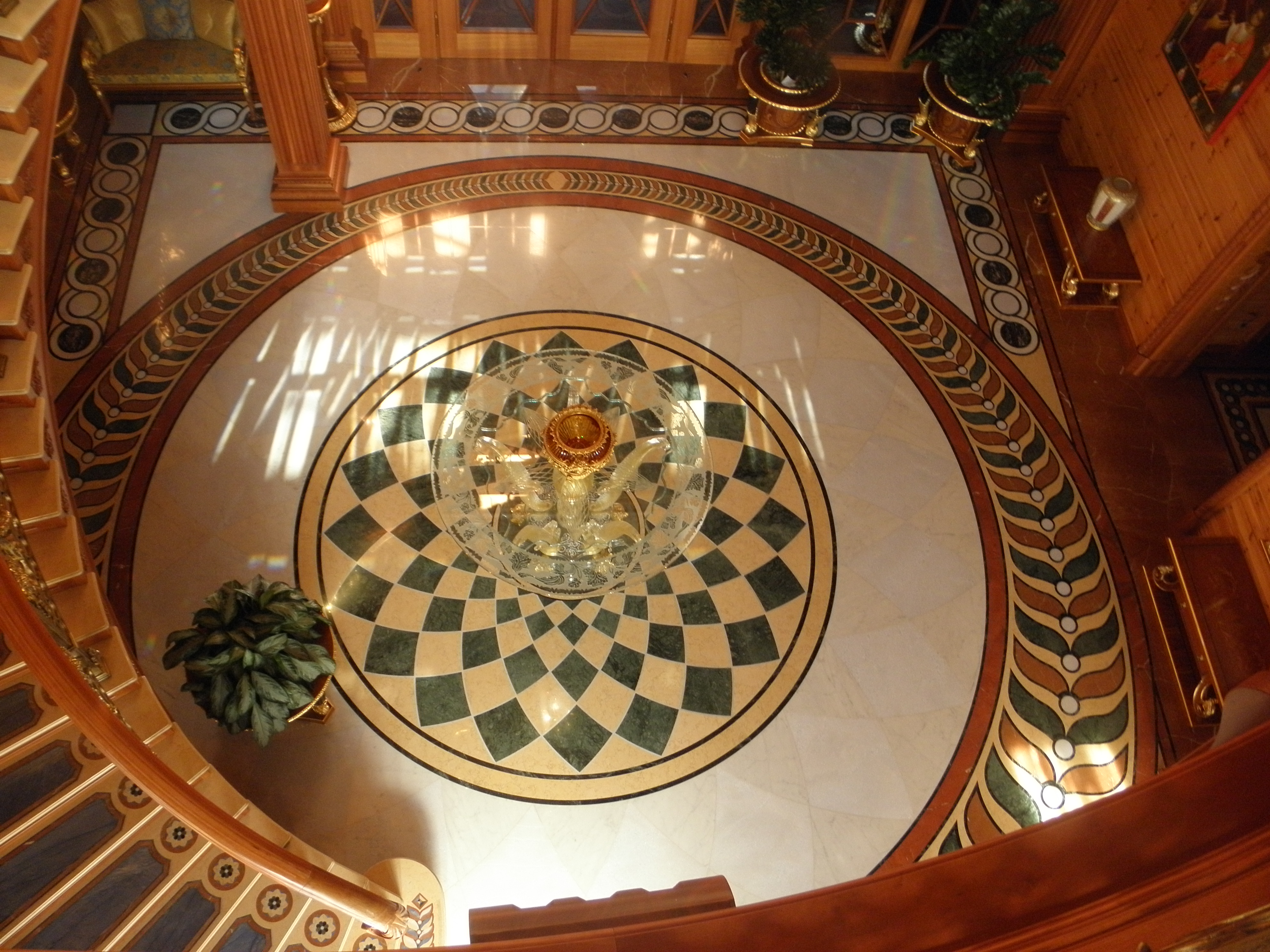 Interior of villa Honka. National Park Mezhyhirya '.Ua